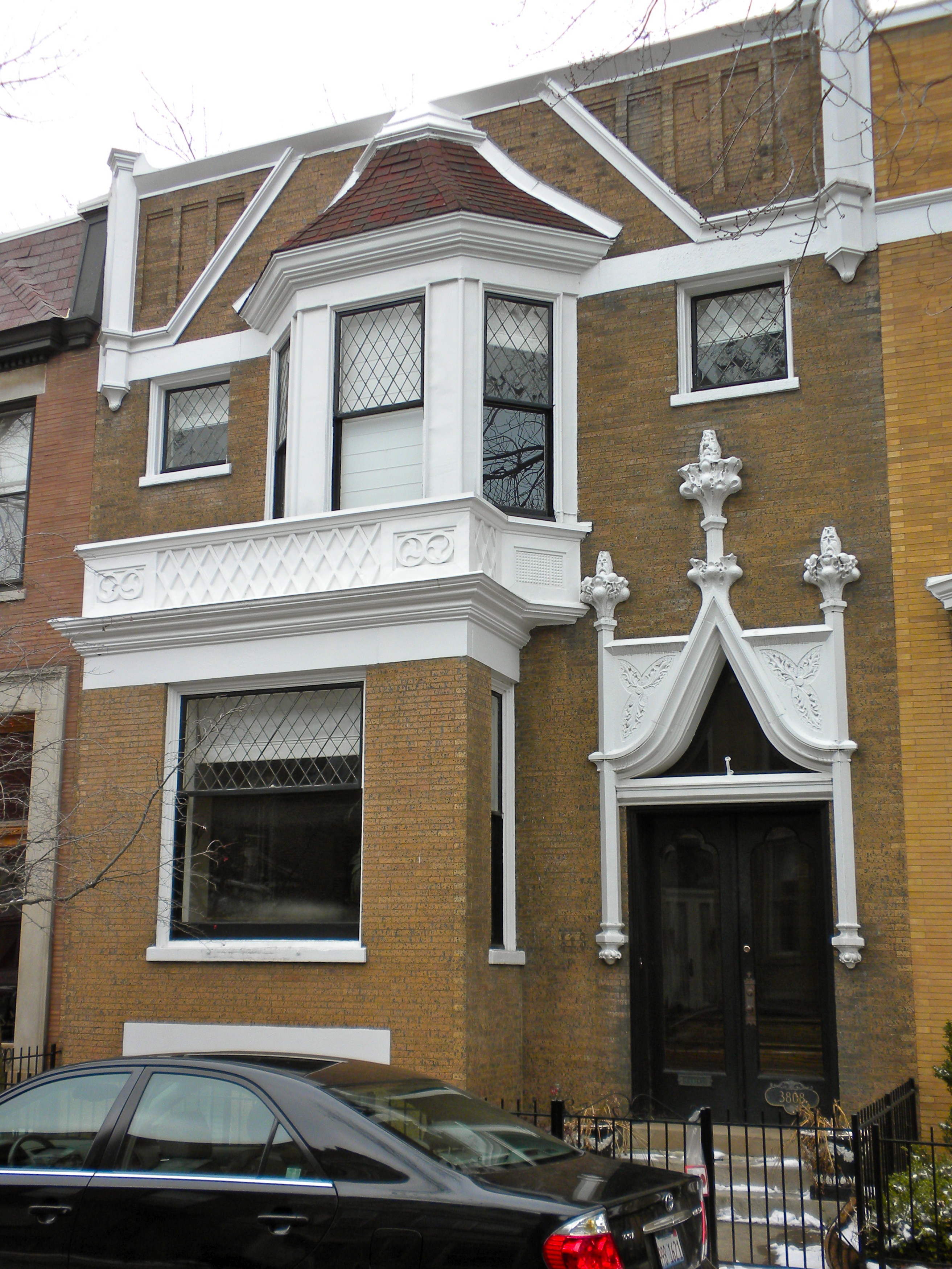 House on Alta Vista Terrace in Chicago, in an NRHP Historic District. Houses are essential matched or repeated against the house diagonally opposite on the street, e.g. the 2nd house from the North end on the west side of the street matches with the 2nd house from the South end on the east sied of the street. Alta Vista 1 photo matches with Alta Vista 2 photo, but note that there were minor differences in construction and that time and separate owners have magnified the differences. Block bounded by W. Byron Street, W. Grace Street, N. Kenmore Avenue, and N. Seminary Avenue